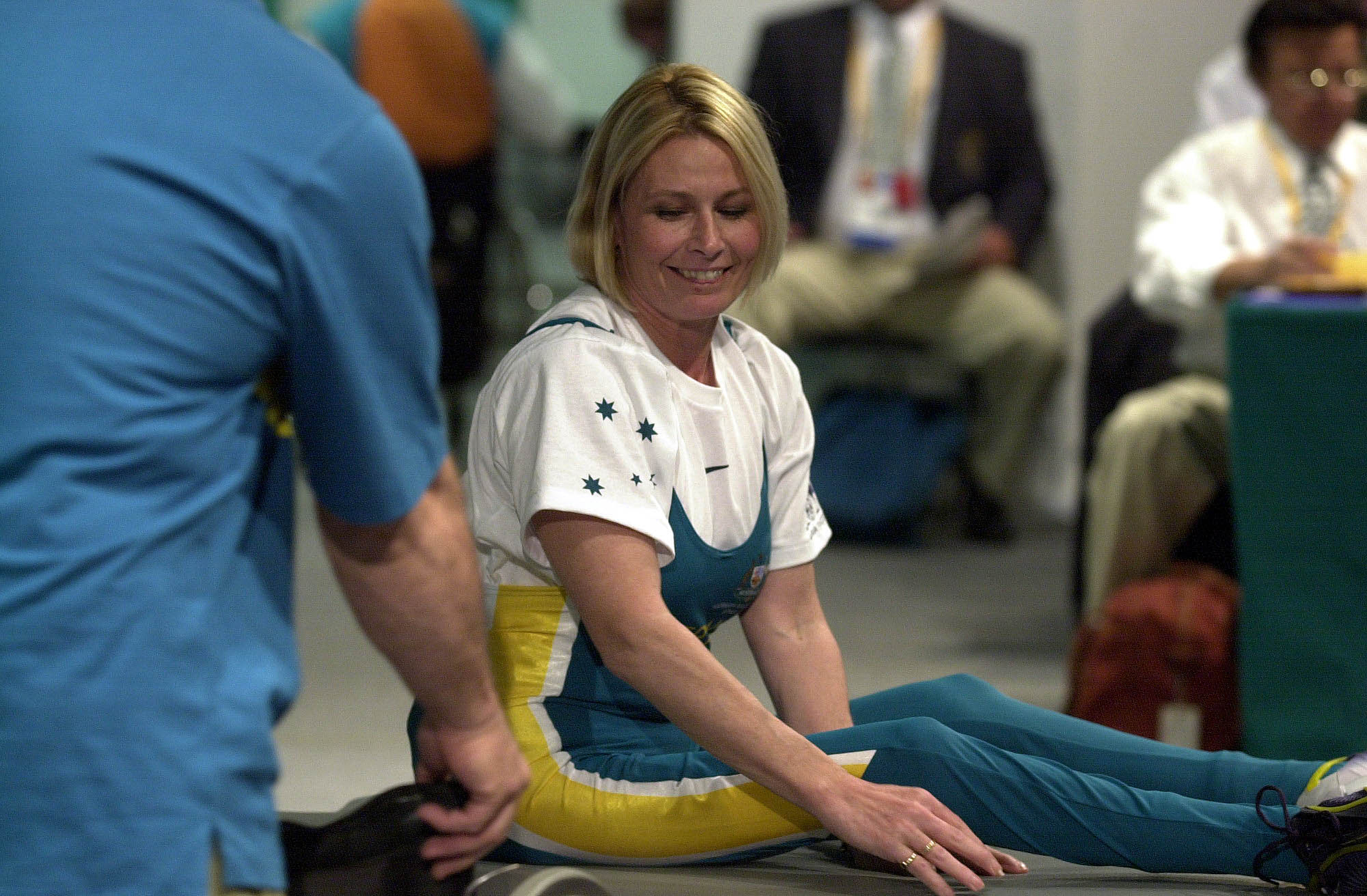 Australian powerlifter Suzanne Twelftree during 2000 Sydney Paralympic Games competition, 48kg category